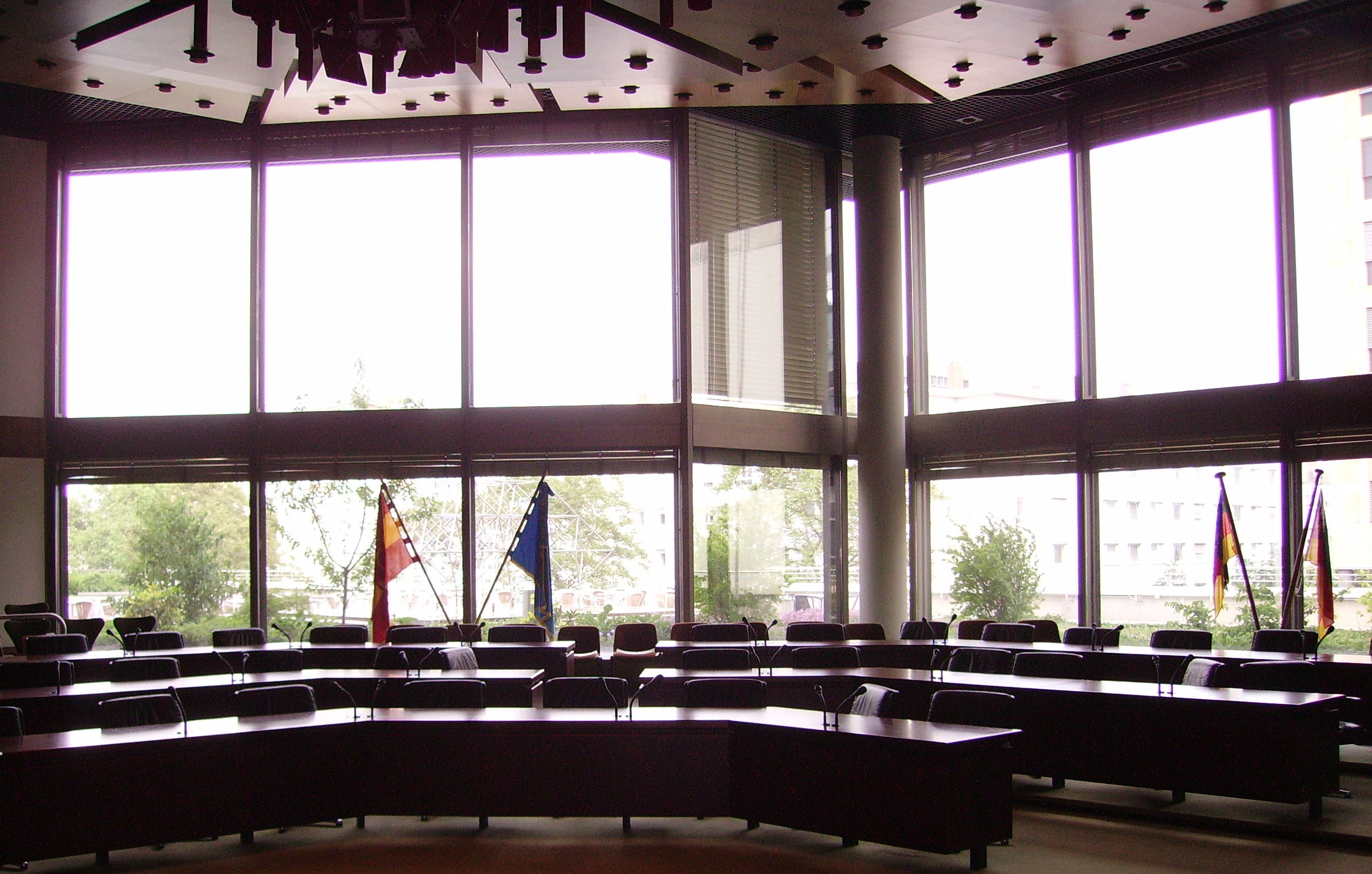 inside the townhall of Ludwigshafen, Germany